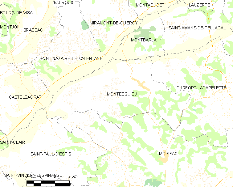 Map of French municipality Montesquieu